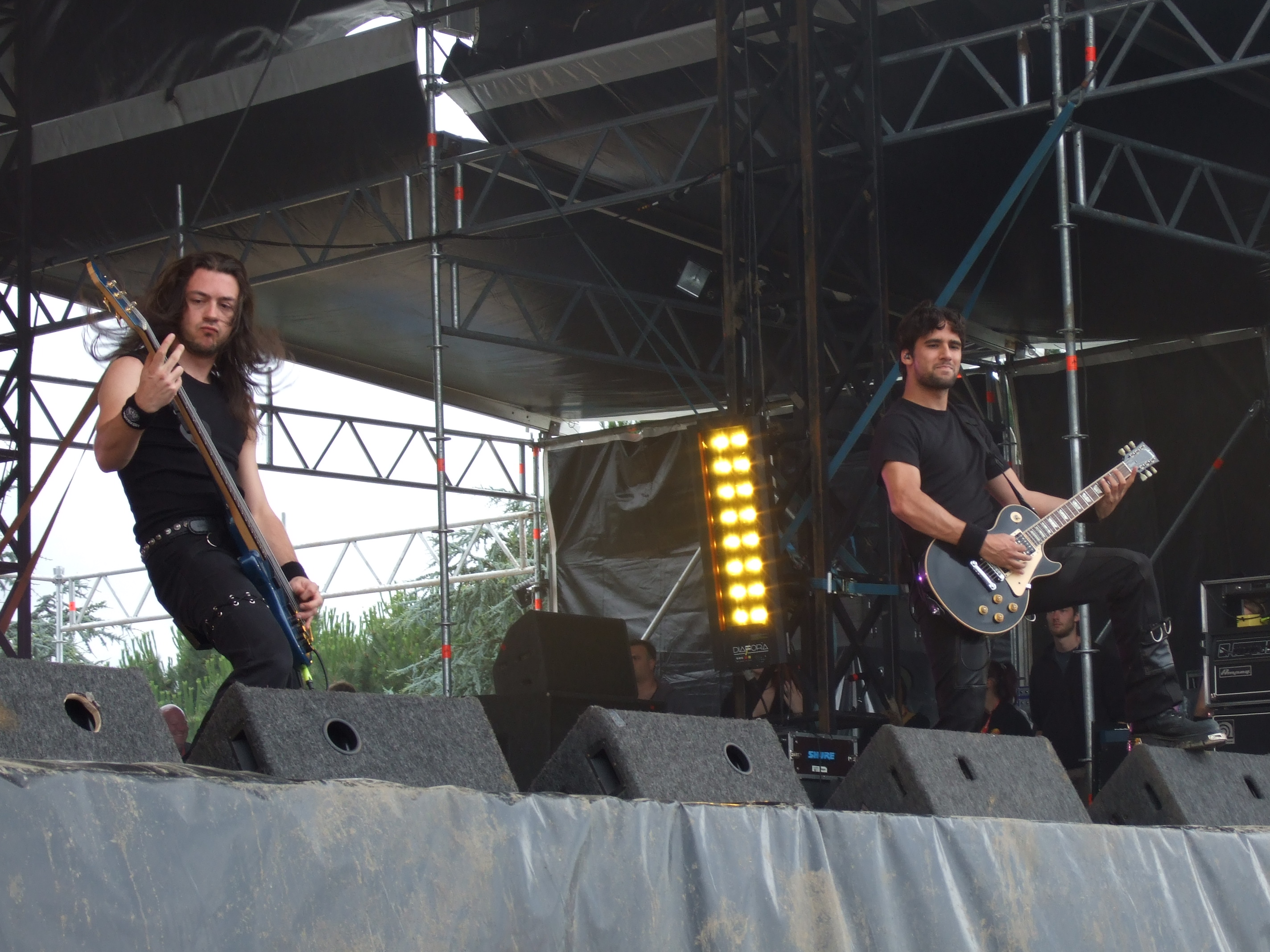 Epica at Hellfest Summer Open Air 2007.